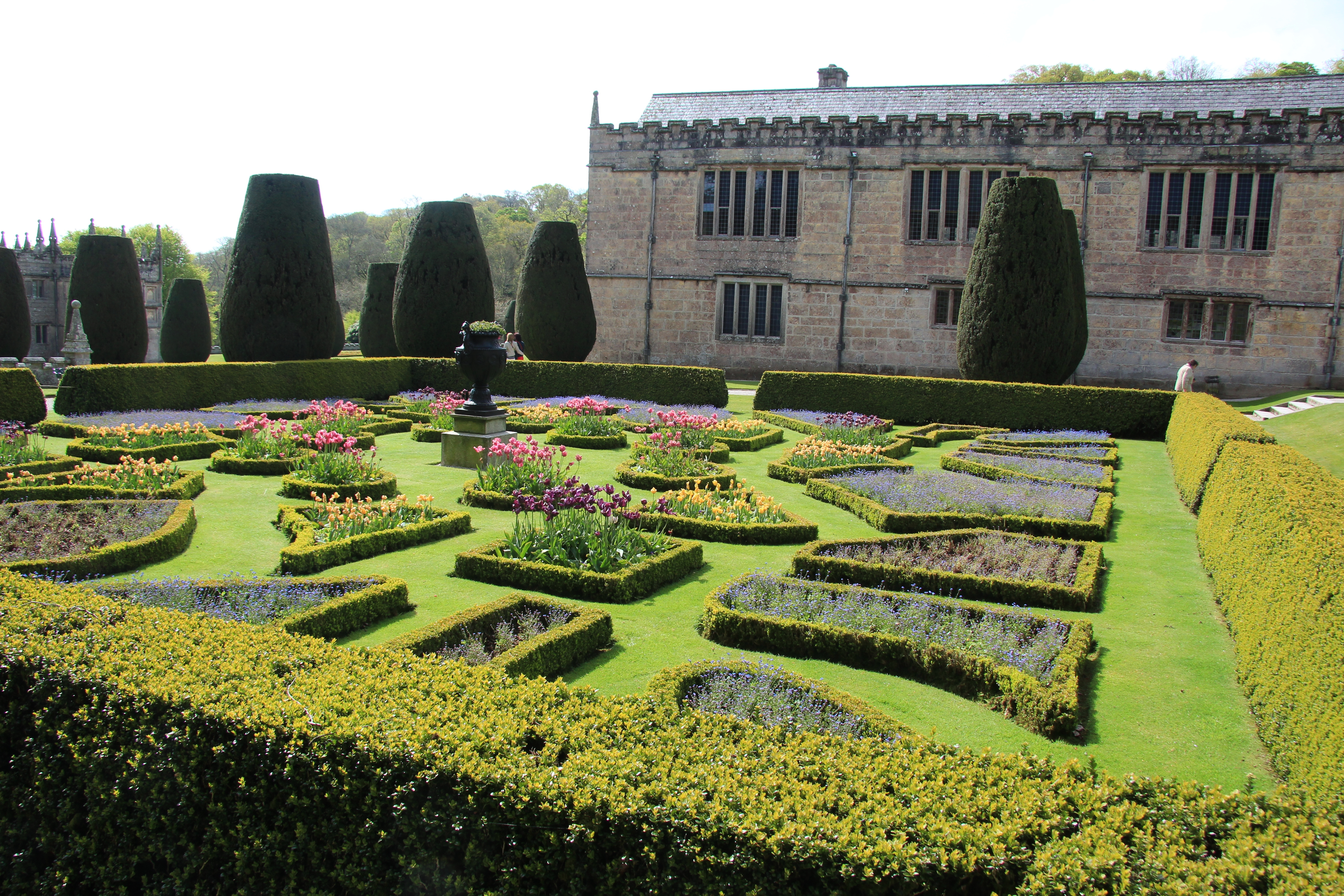 Lanhydrock House in Cornwall